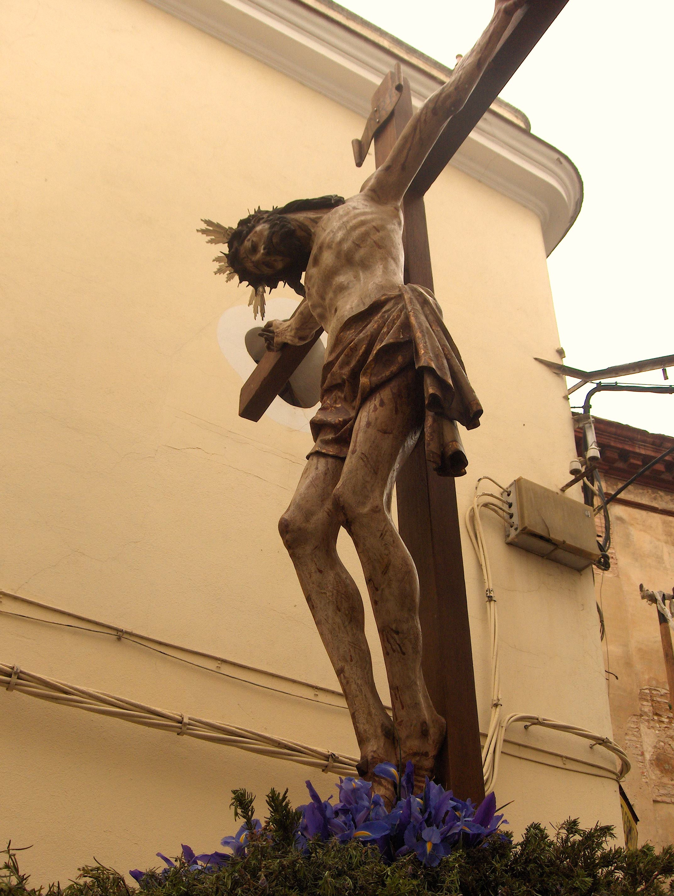 cristo